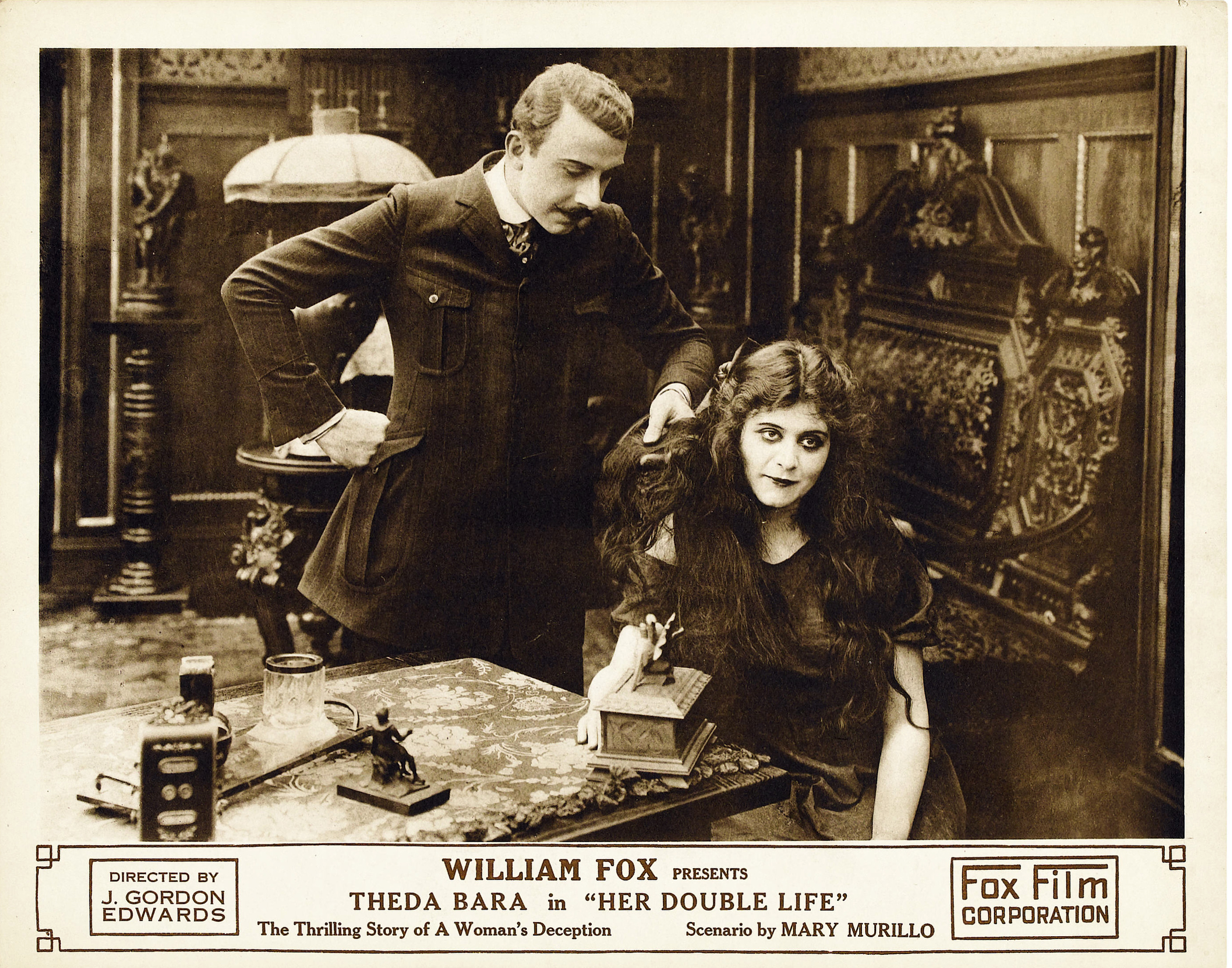 Stuart Holmes and Theda Bara in Her Double Life (1916) - lobby card (cropped)